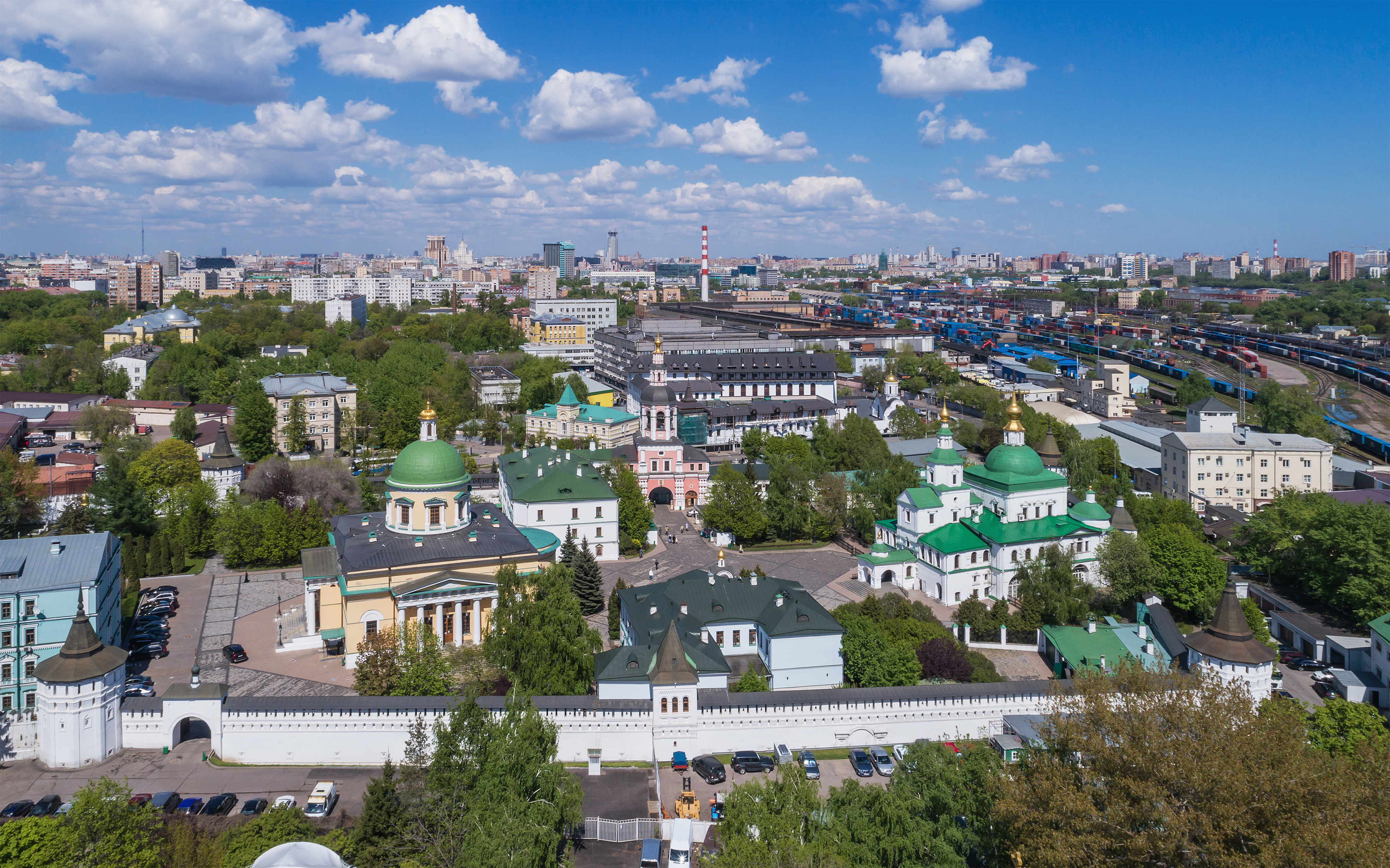 Aerial photo of Danilov Monastery in Moscow (Russia).